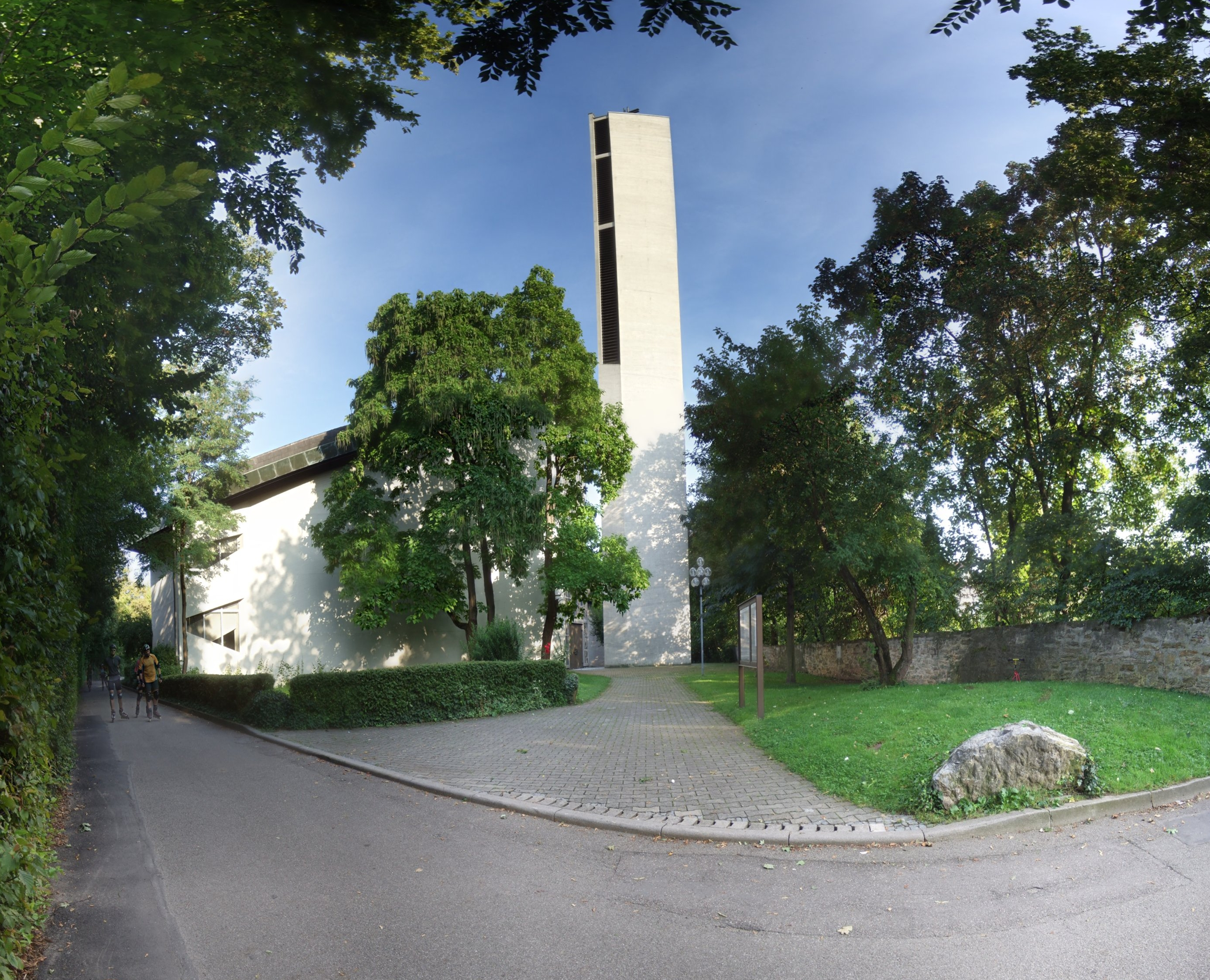 Panorama view of St. Maria, catholic church of Ditzingen, Germany